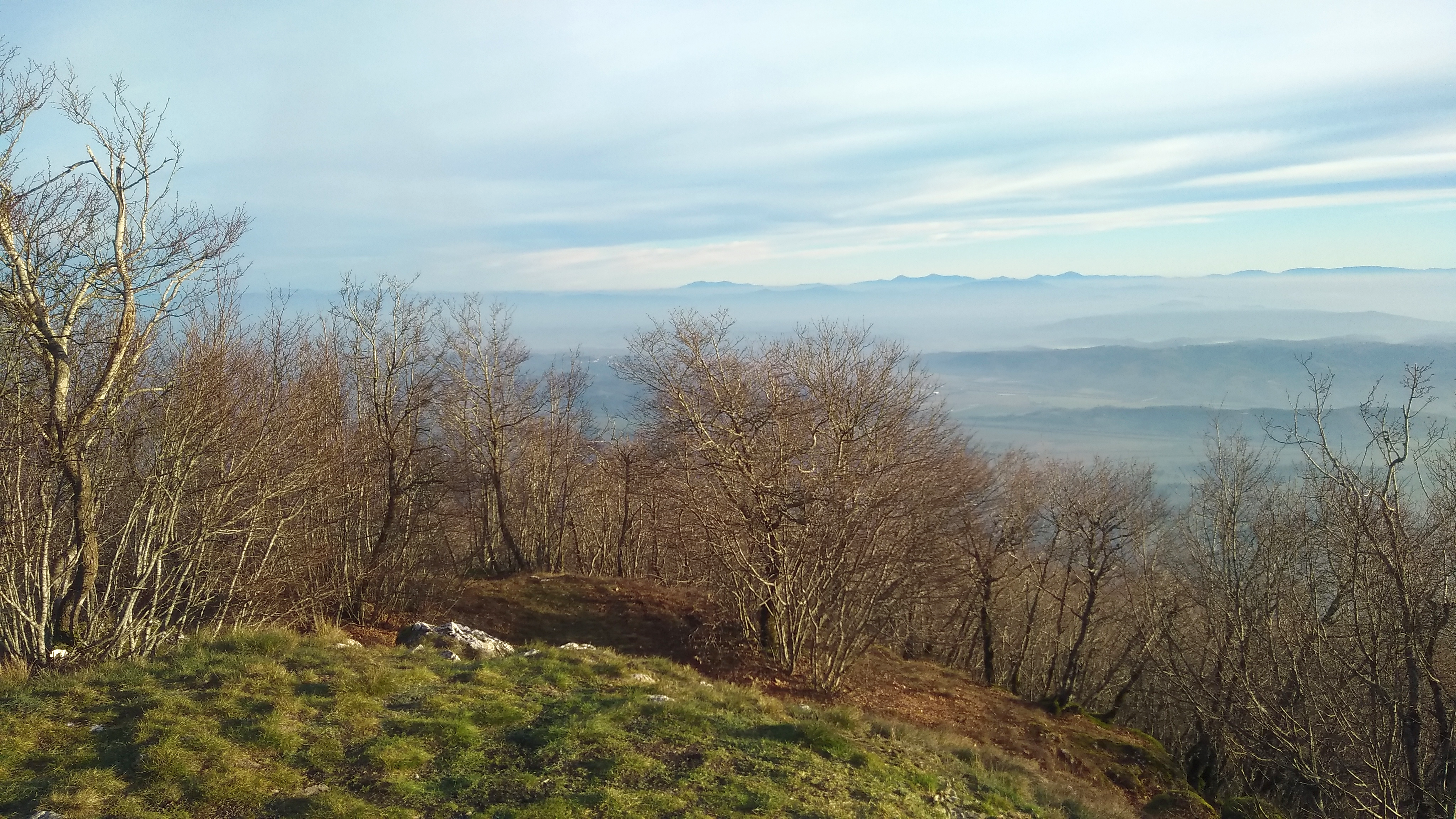 Monte Cetona (Tuscany, Italy): its woodland as seen in winter